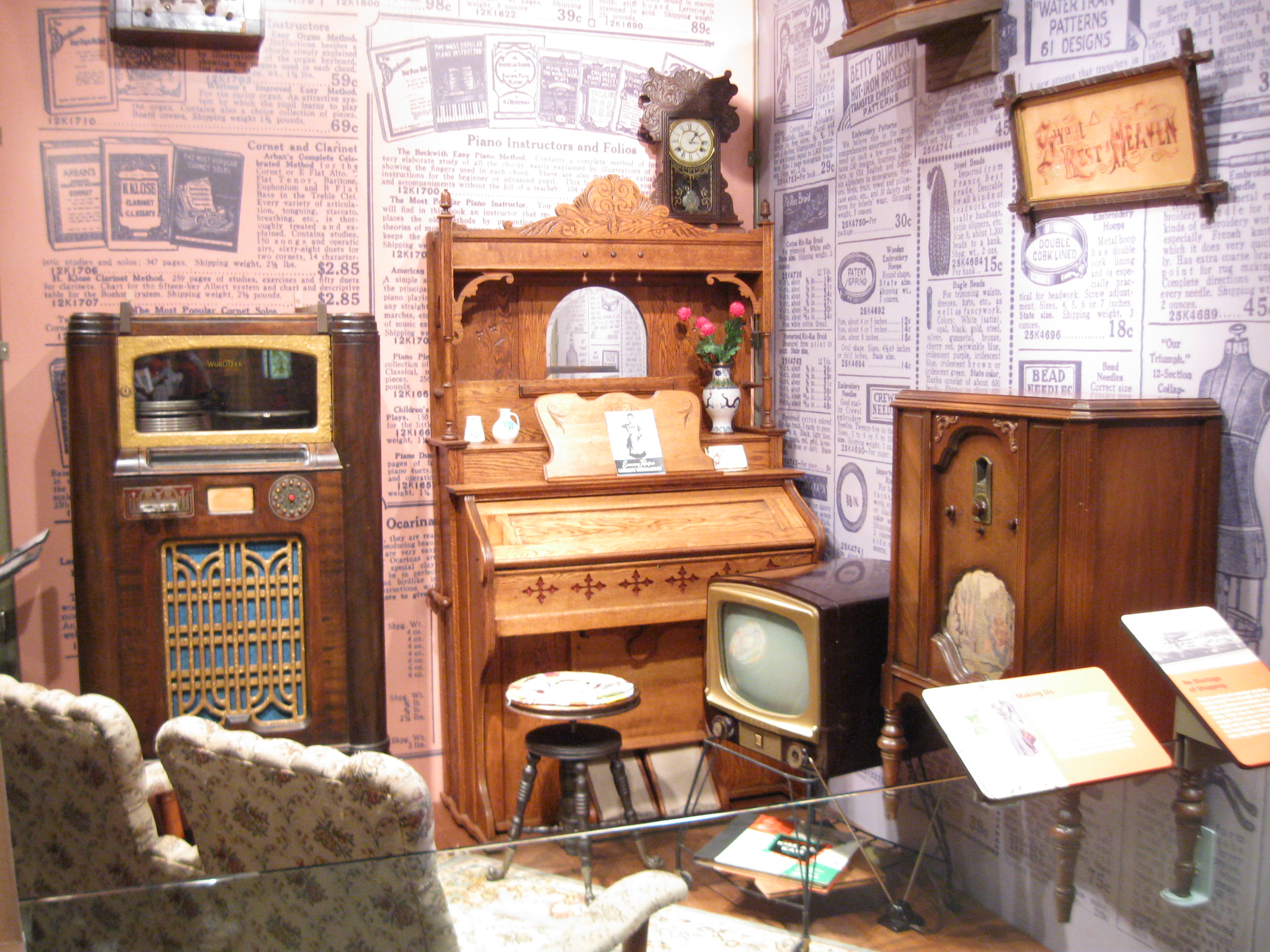 This is a Wurlitzer jukebox, Philco radio, Motorola TV and a piano which catered to the entertainment needs of young people in a typical family household from the 1940's through to the early 1960's. It is today on permanent display in the collection of the Surrey Museum in the City of Surrey, British Columbia, Canada.